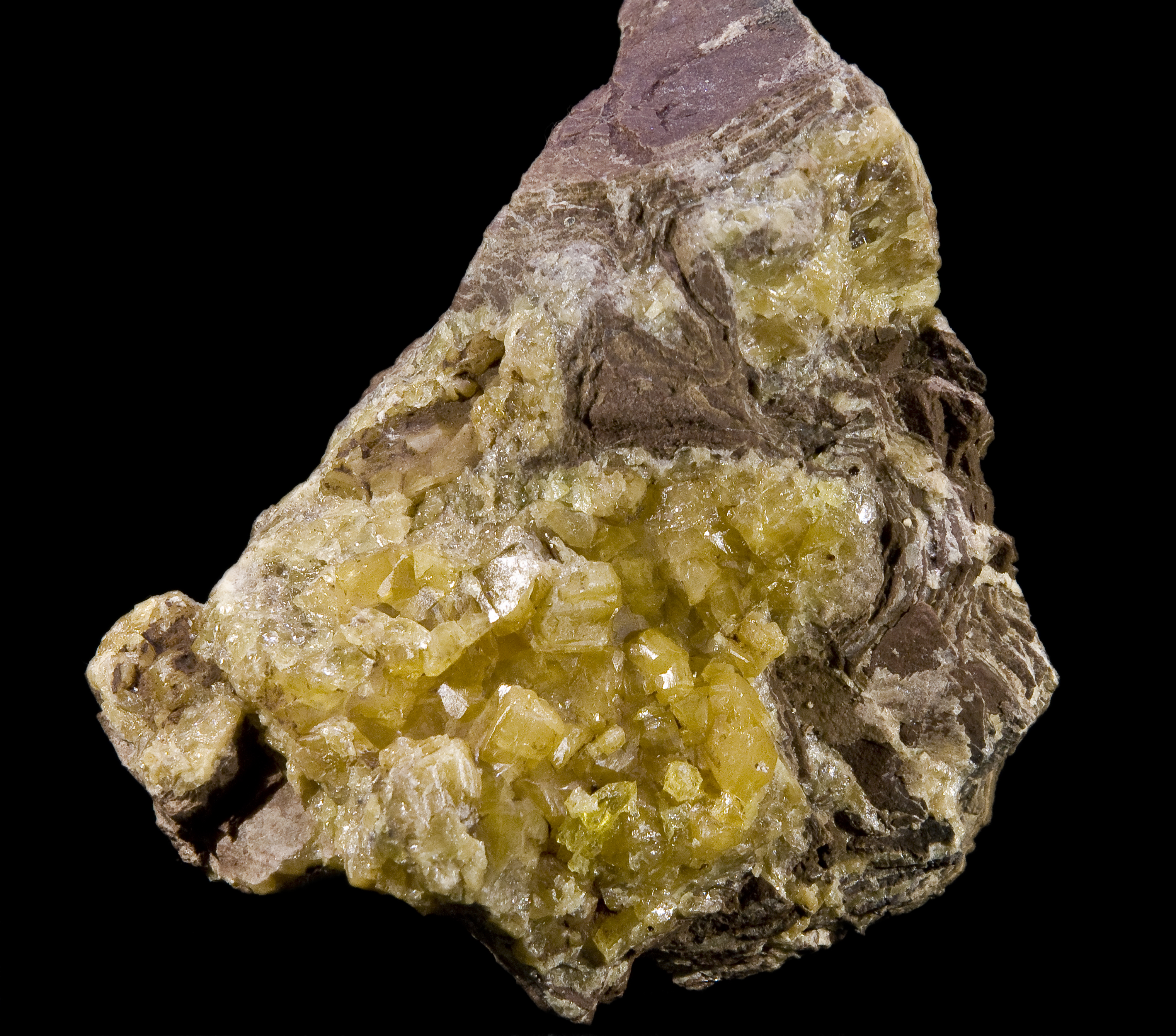 Sulphur Locality : Malvesi, Les Geyssières, Narbonne, Aude, Languedoc-Roussillon, France Size : 8x7cm